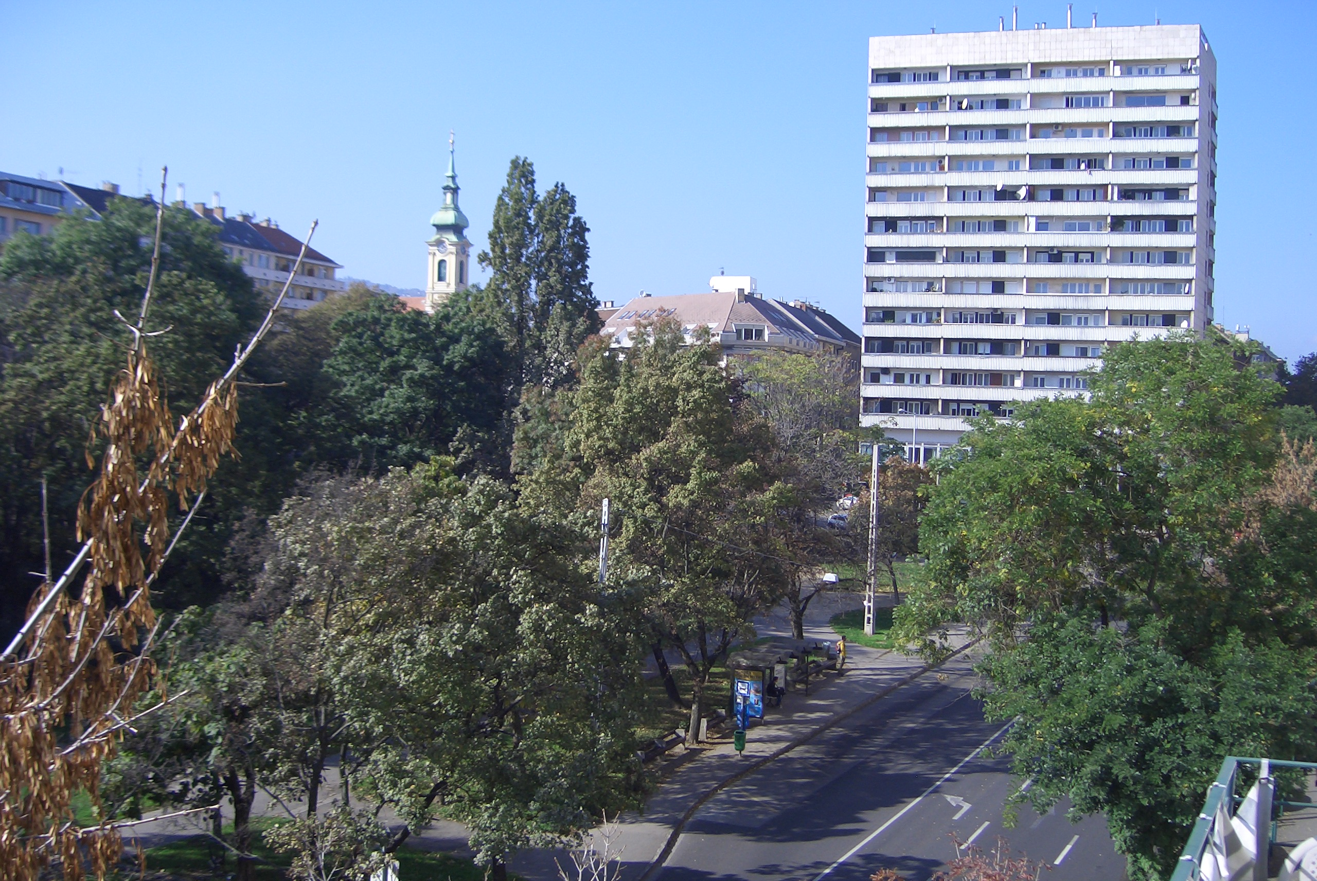 Horváth-kert, seen with from Attila út, with Church of Krisztinaváros, and high rise building in Alagút utca